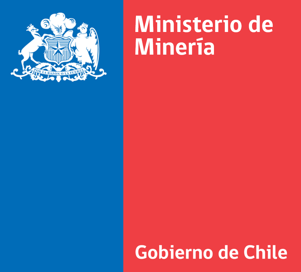 Ministry of Mining.